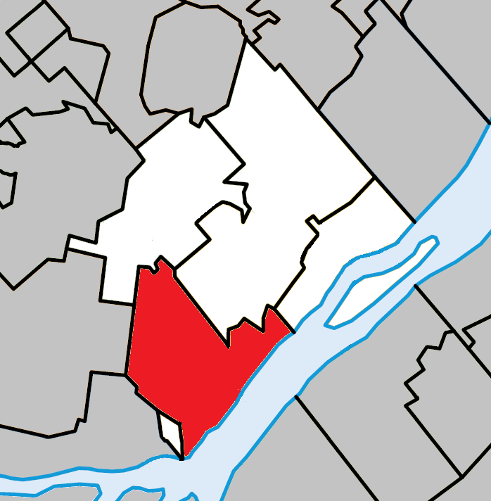 Location of Repentigny, Quebec within L'Assomption Regional County Municipality.